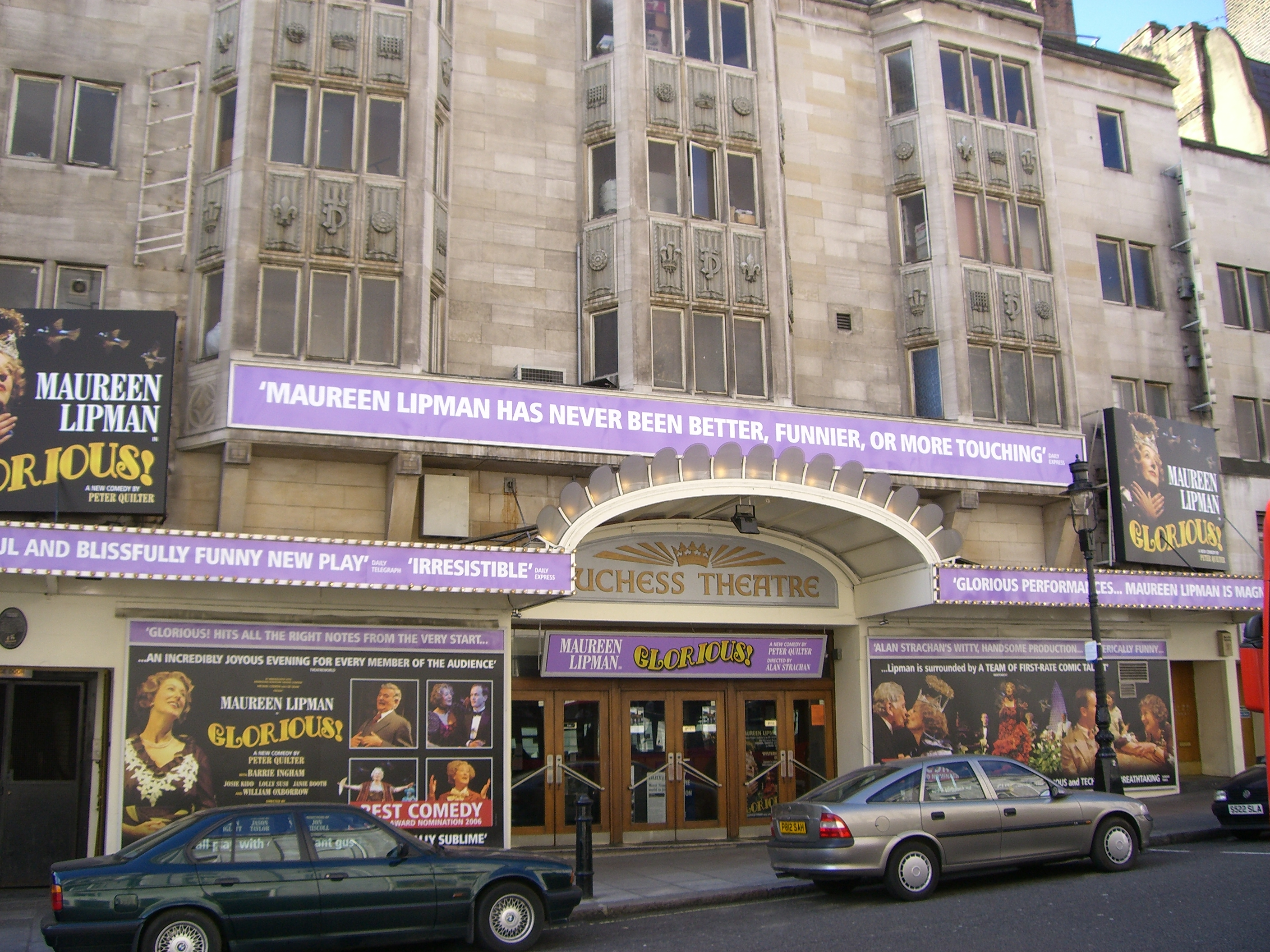 Duchess Theatre, Catherine Street, London, WC2B 5LA